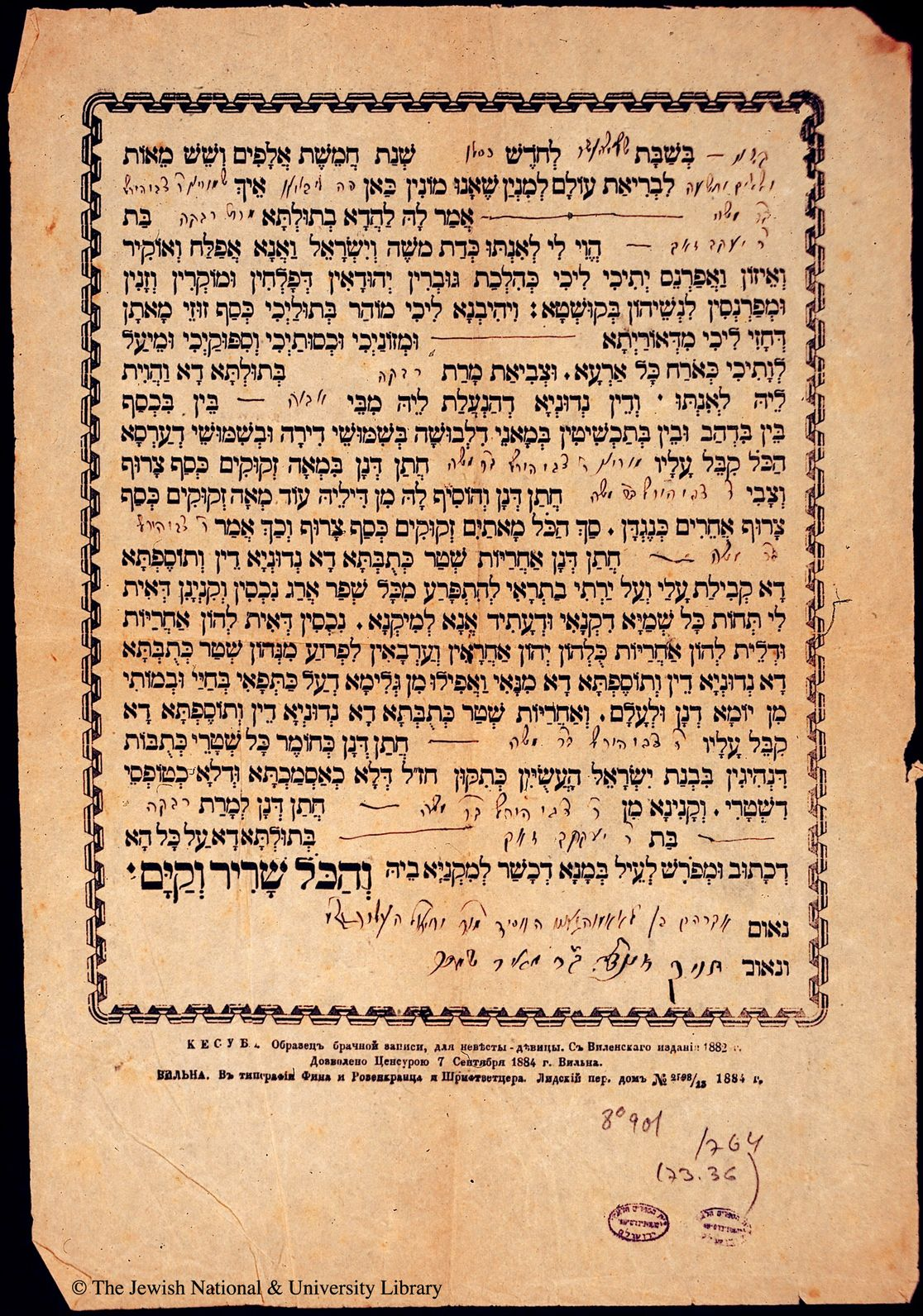 Ketubah from The Ketubot Collection of the National Library of Israel